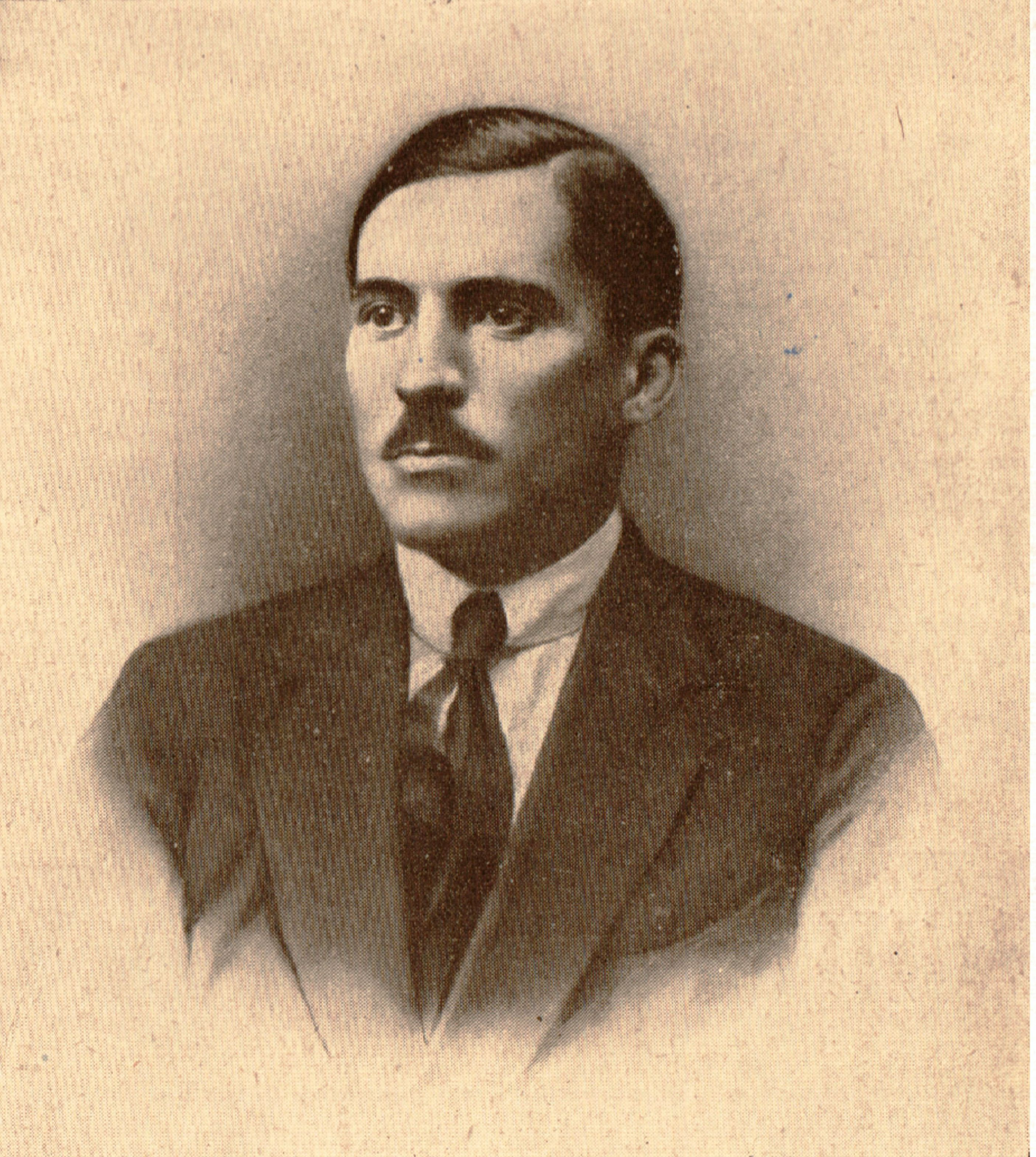 Lyubomir Vesov